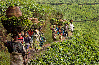 Workers at a tea plantation farm This is an image of "African people at work" from Rwanda